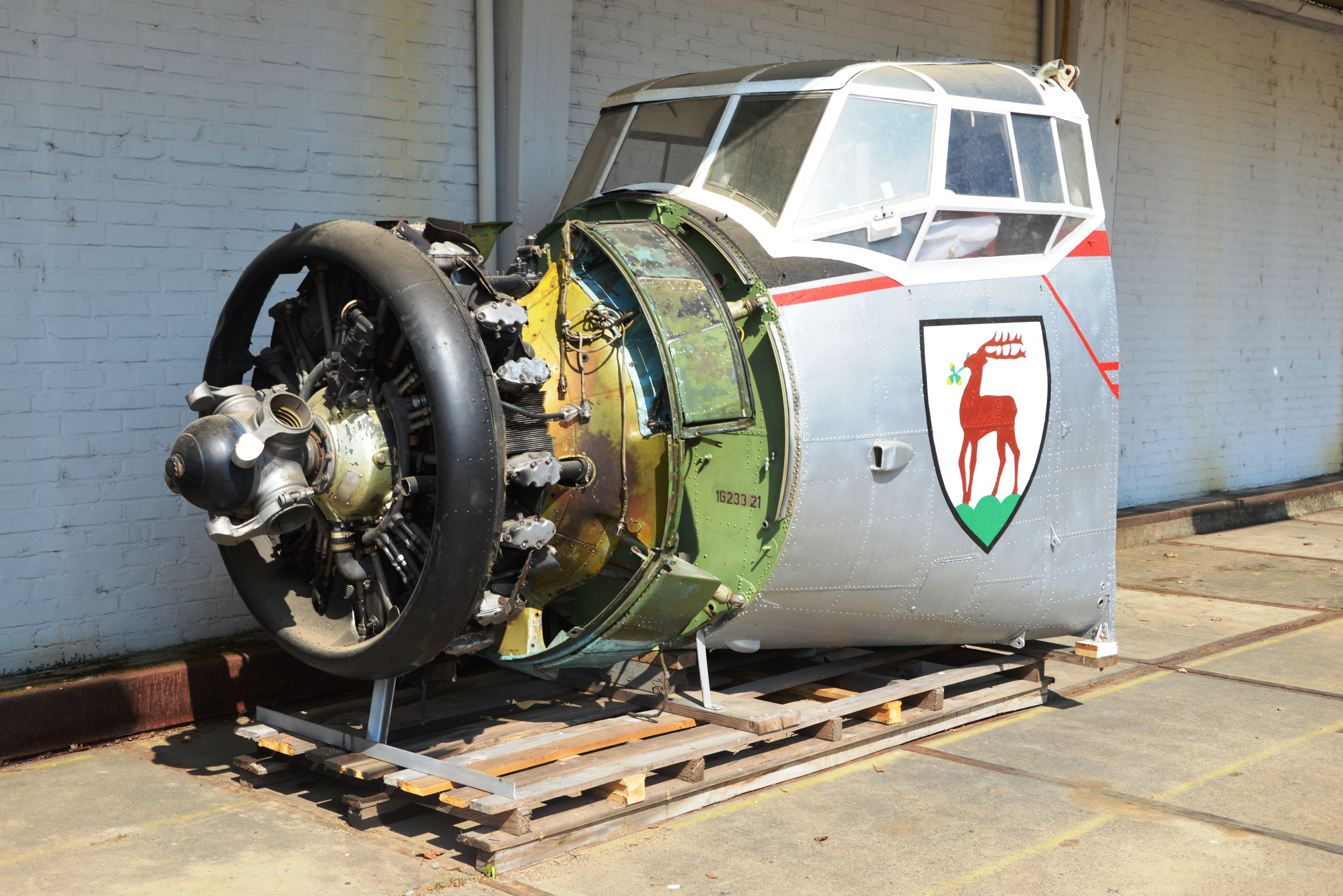 Disassembled Antonov An-2. Largest single engine biplane aircraft in the world. NACA cowling removed to show the 9-cylinder radial Shvetsov engine.